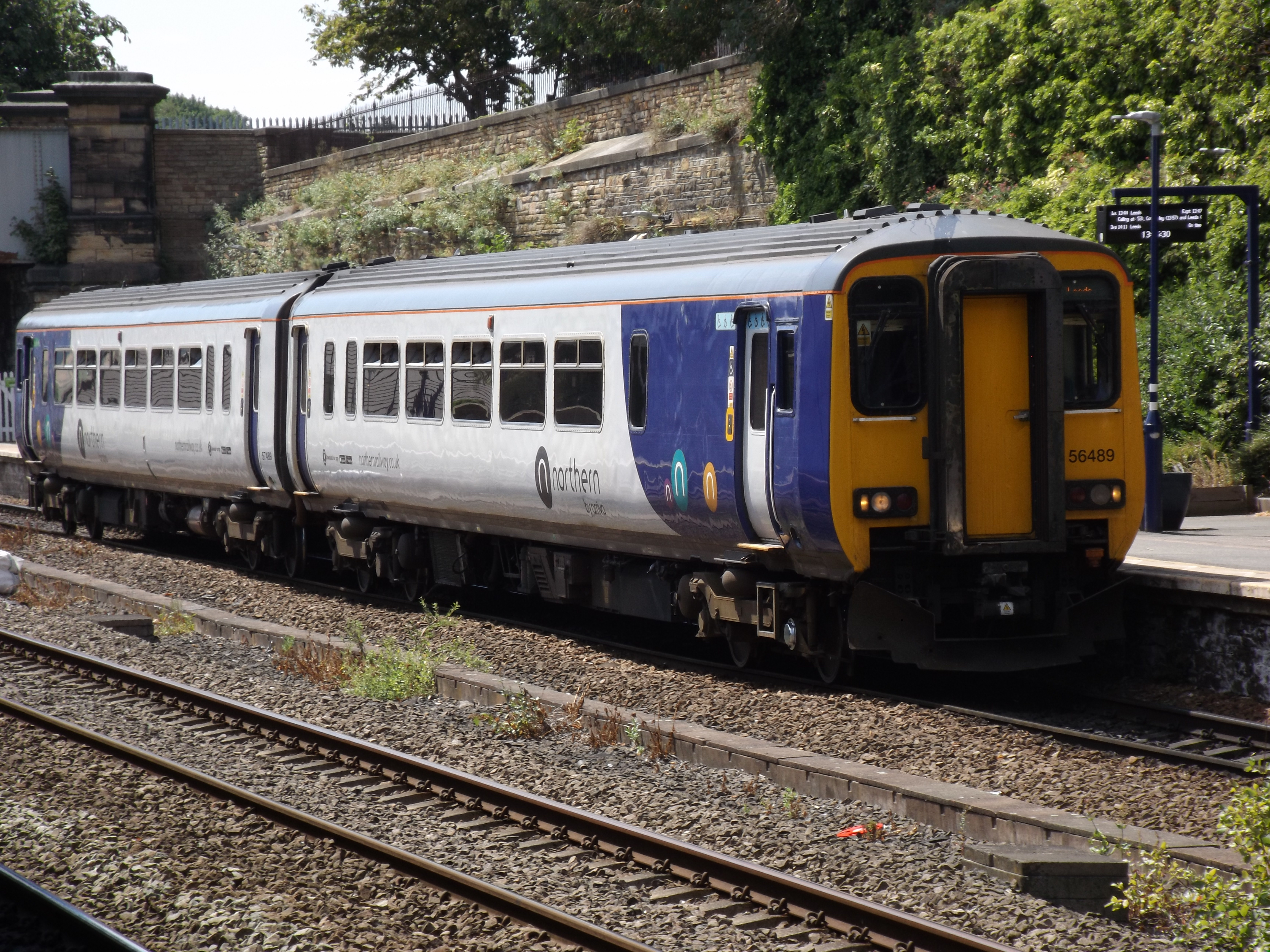 DMU 156489 in Northern Rail white livery at platform 1, Dewsbury railway station, West Yorkshire, England